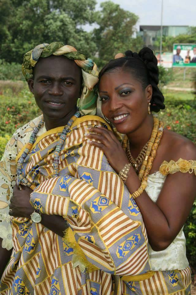 This is an image of Cultural Fashion or Adornment from Ivory Coast